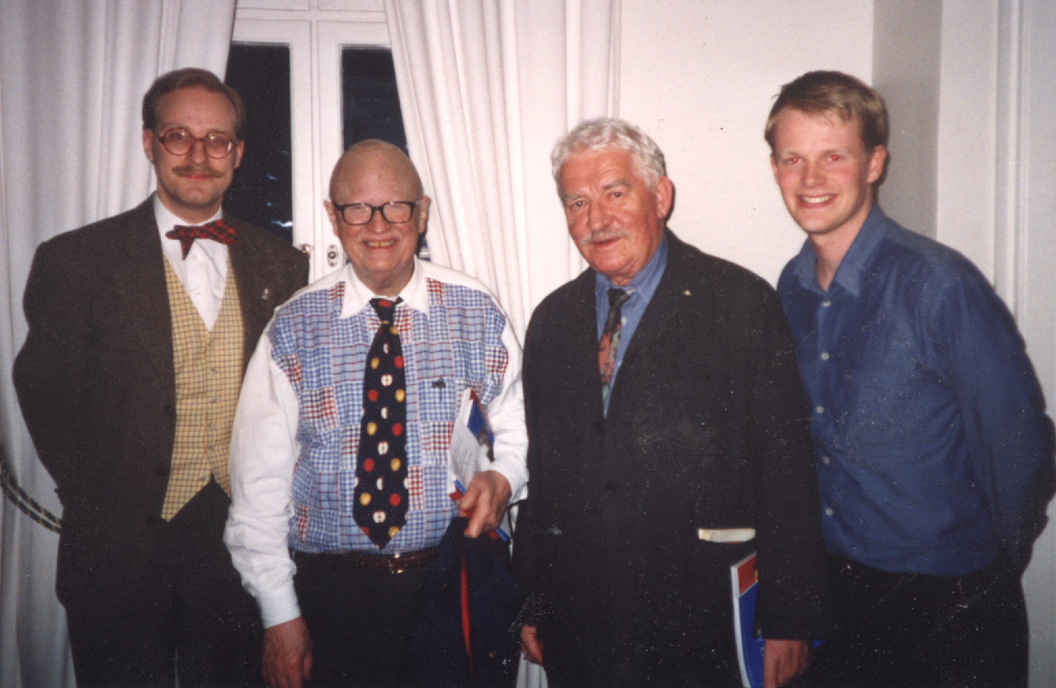 Swedish entertainers Povel Ramel (second from left) and Hans Alfredson (third from left) after a so called "studentafton" ("student evening") at Akademiska Föreningen (the Academic Society) in Lund. They are surrounded by the "ombudsman" of Akademiska Föreningen, Fredrik Tersmeden, and the chairman of the student evening committee, Peter Magnusson.